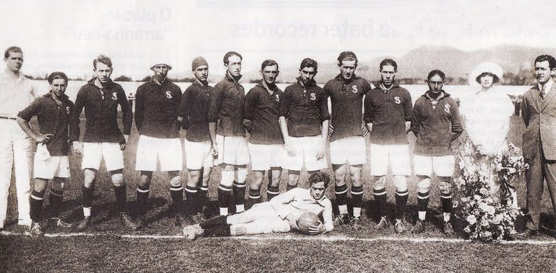 The Brazilian team Cruzeiro in 1923, before playing a match v. Flamengo.